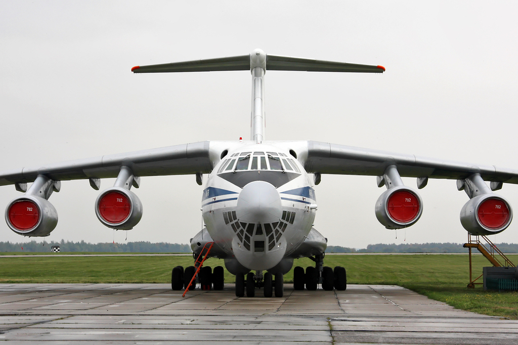 IL-98 Midas aerial refueling tanker from 203rd Guards Air Refueling Regiment on 43rd Centre for Combat Application and Training of Aircrew for Long Range Aviation airfield. Ryazan region, Dyagilevo airbase.